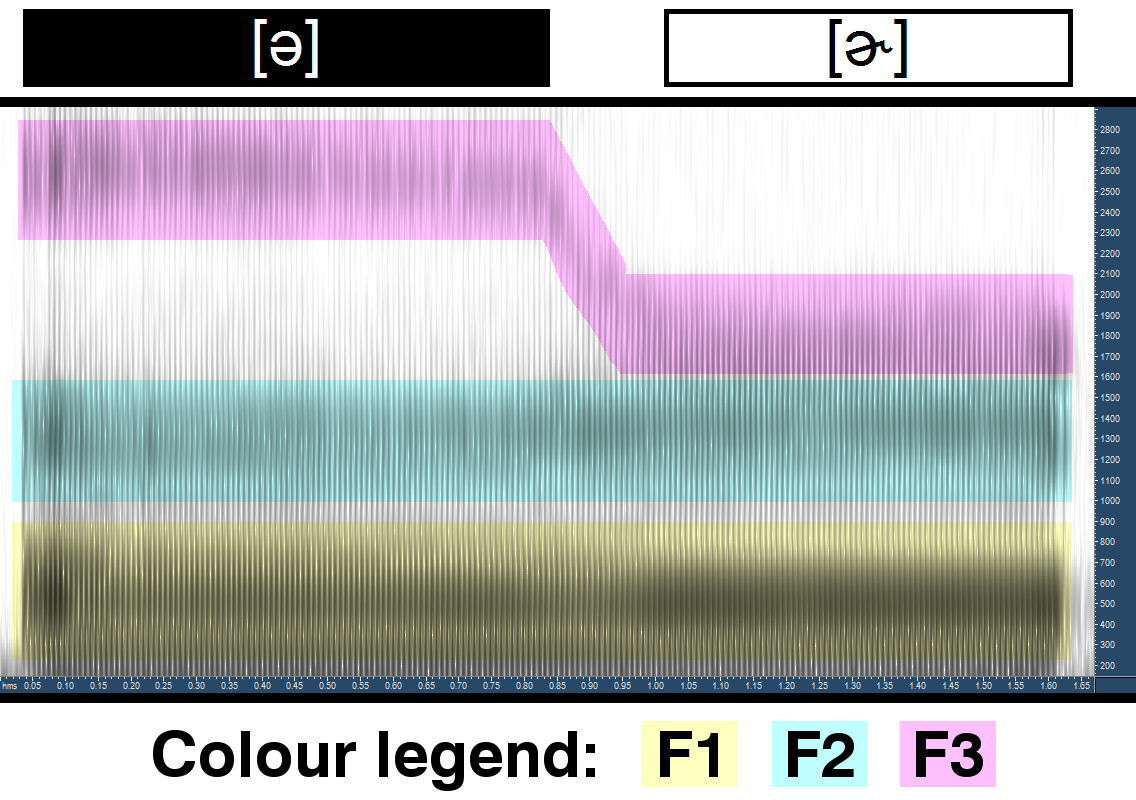 Spectrogram of Regular_and_r-colored_vowels.ogg, with formants highlighted. Created using Cool Edit Pro 1.2.